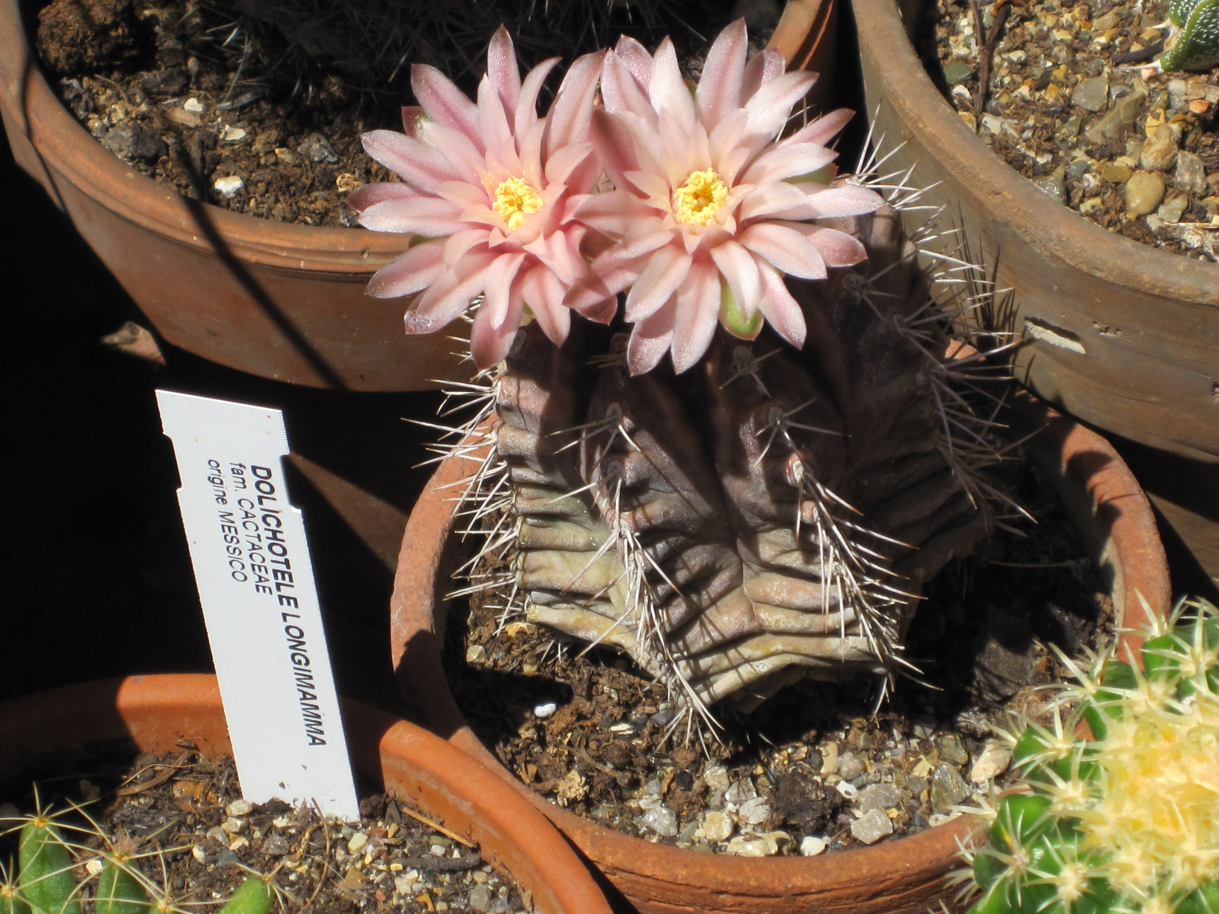 Gymnocalycium mihainovichii in flower